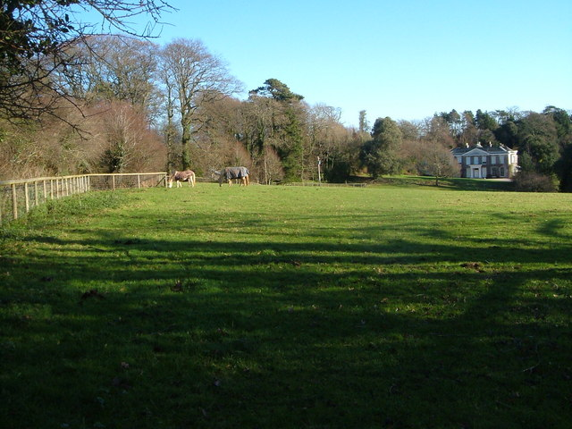 Gnaton Hall A seat of the Lopes family, now connected by marriage to the Parker-Bowles. The field is beside the track between Bosacvene and Gnaton Cottages.